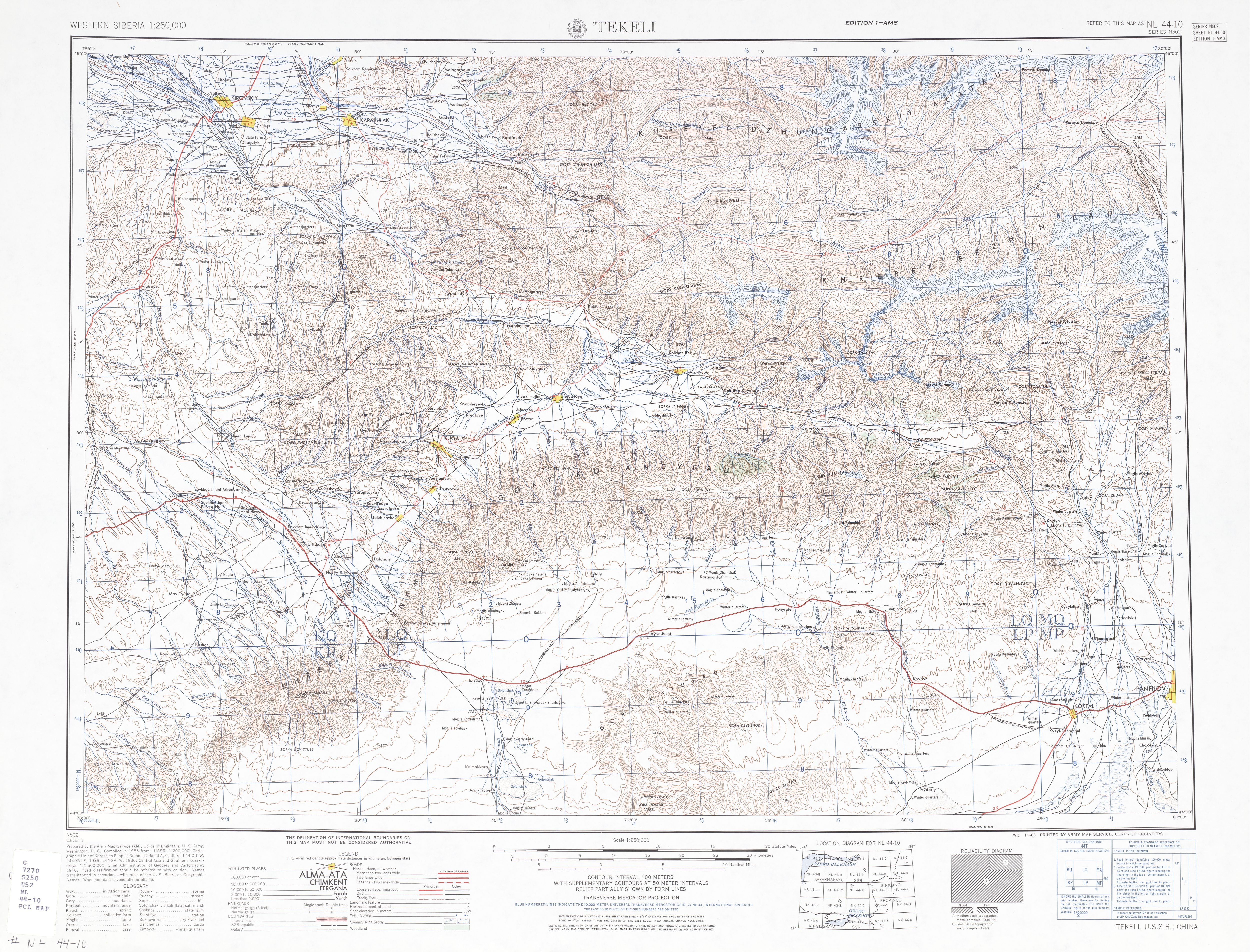 List from Western Siberia AMS Topographic Maps. Series N502, U.S. Army Map Service, 1955